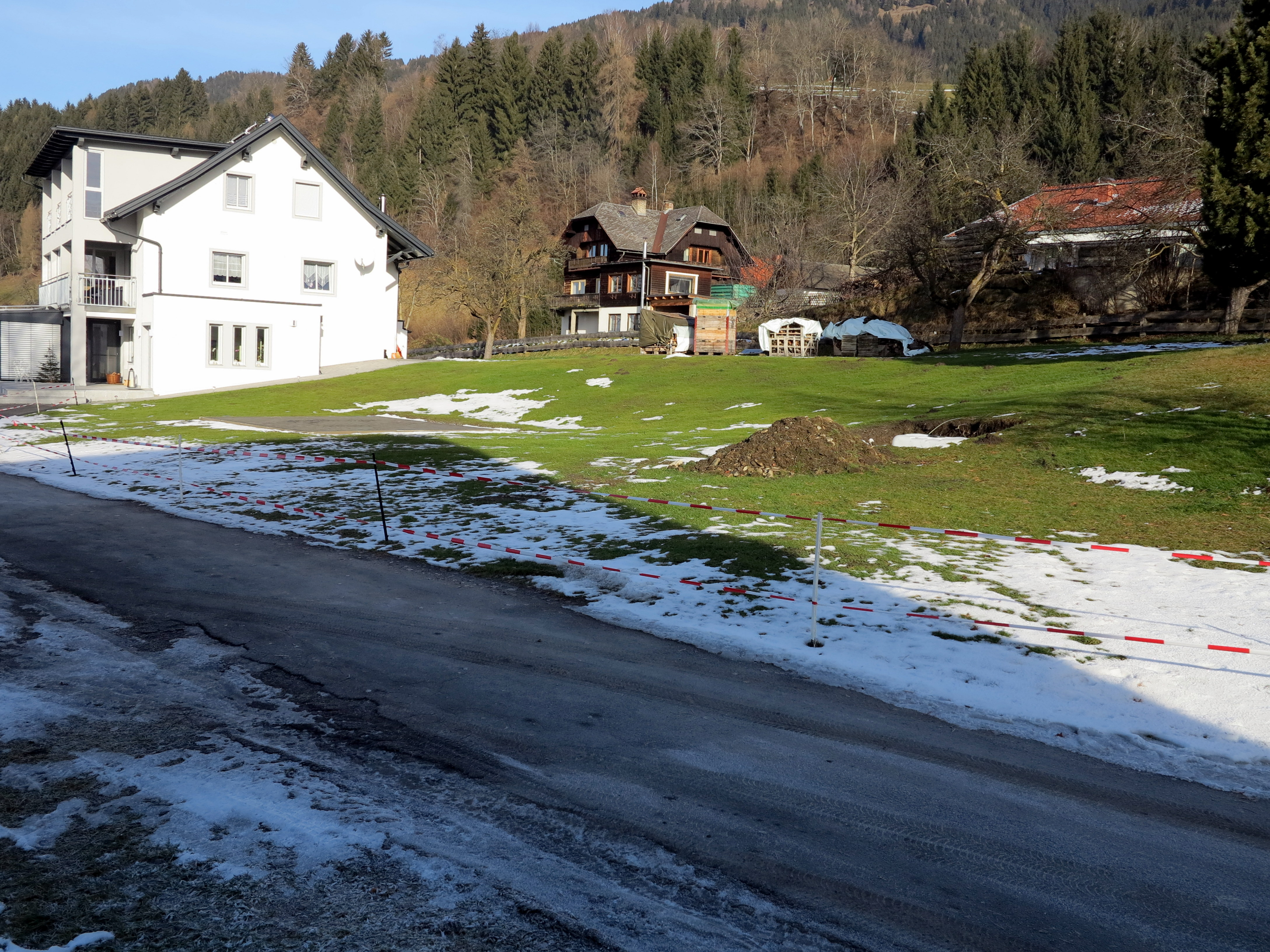 Ruin of an early christian church in Laubendorf near Lake Millstatt (Millstätter See), district Spittal an der Drau in Carinthia / Austria / EU. The church was open to the public for 55 years. The landowner has a listed property is now filled in with earth. Neither the municipality Millstatt am See, even the tourist office or the region of Carinthia is ready, the land owner to pay compensation.